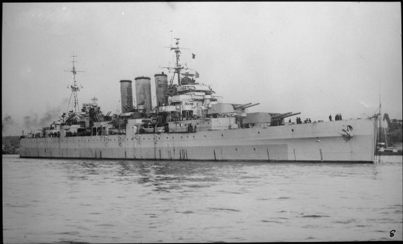 HMS Norfolk Underway.